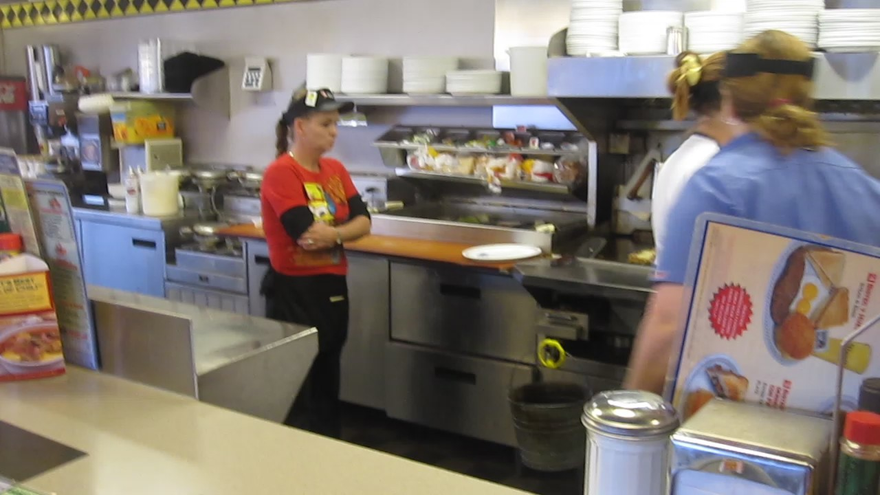 Waitresses working at Waffle House, Fort Worth, Texas